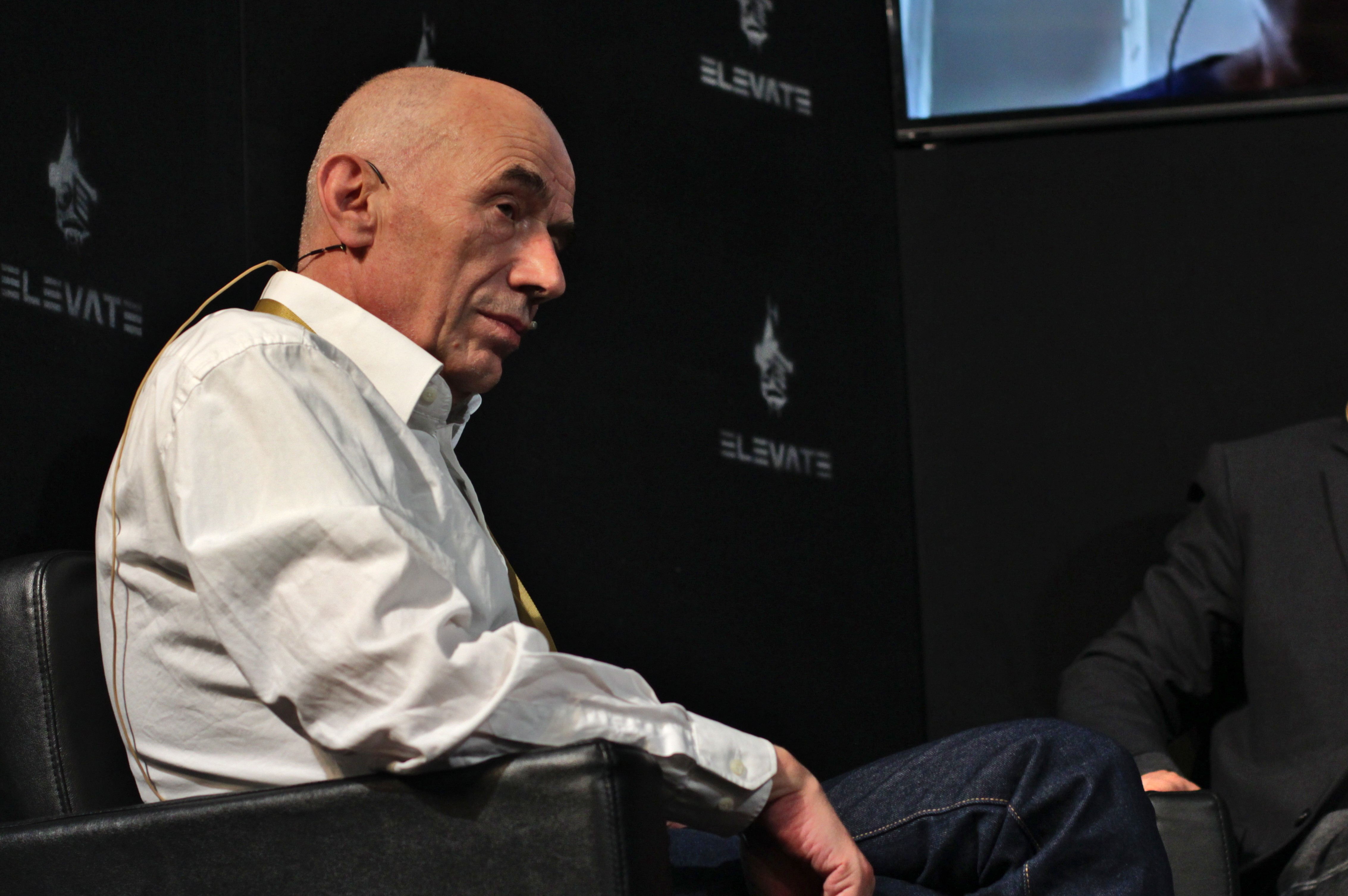 Mathias Bröckers on the panel “Facts, Files, Shredding” at the Elevate Festival 2019 in Graz, Austria.